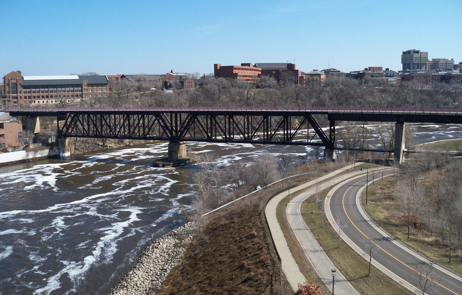 Northern Pacific Bridge No. 9 in Minneapolis, Minnesota, USA. Formerly a railroad bridge, it is now a pedestrian bridge connecting the East Bank and West Bank areas of the University of Minnesota. The bridge spans the Mississippi River. Viewed from the 10th Avenue Bridge upriver.